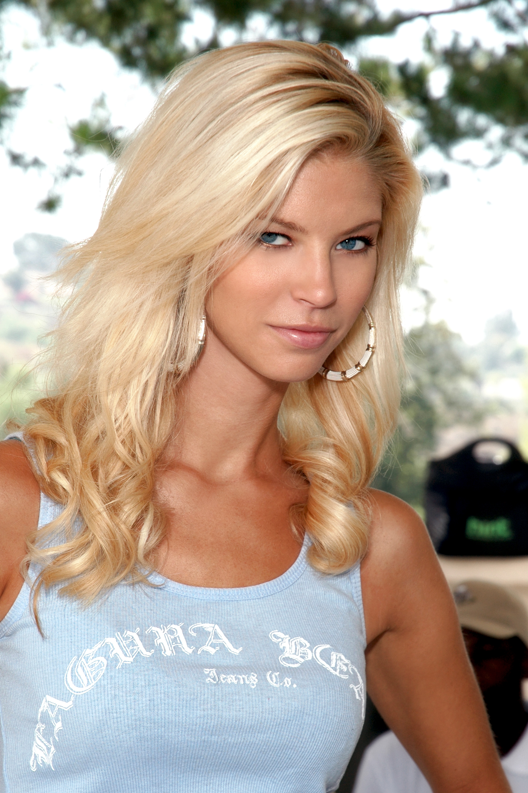 Amanda Blair (Stage name: Amanda Paige) at the Laguna Beach Jeans Golf Charity event - Fullerton, CA 08-02-08